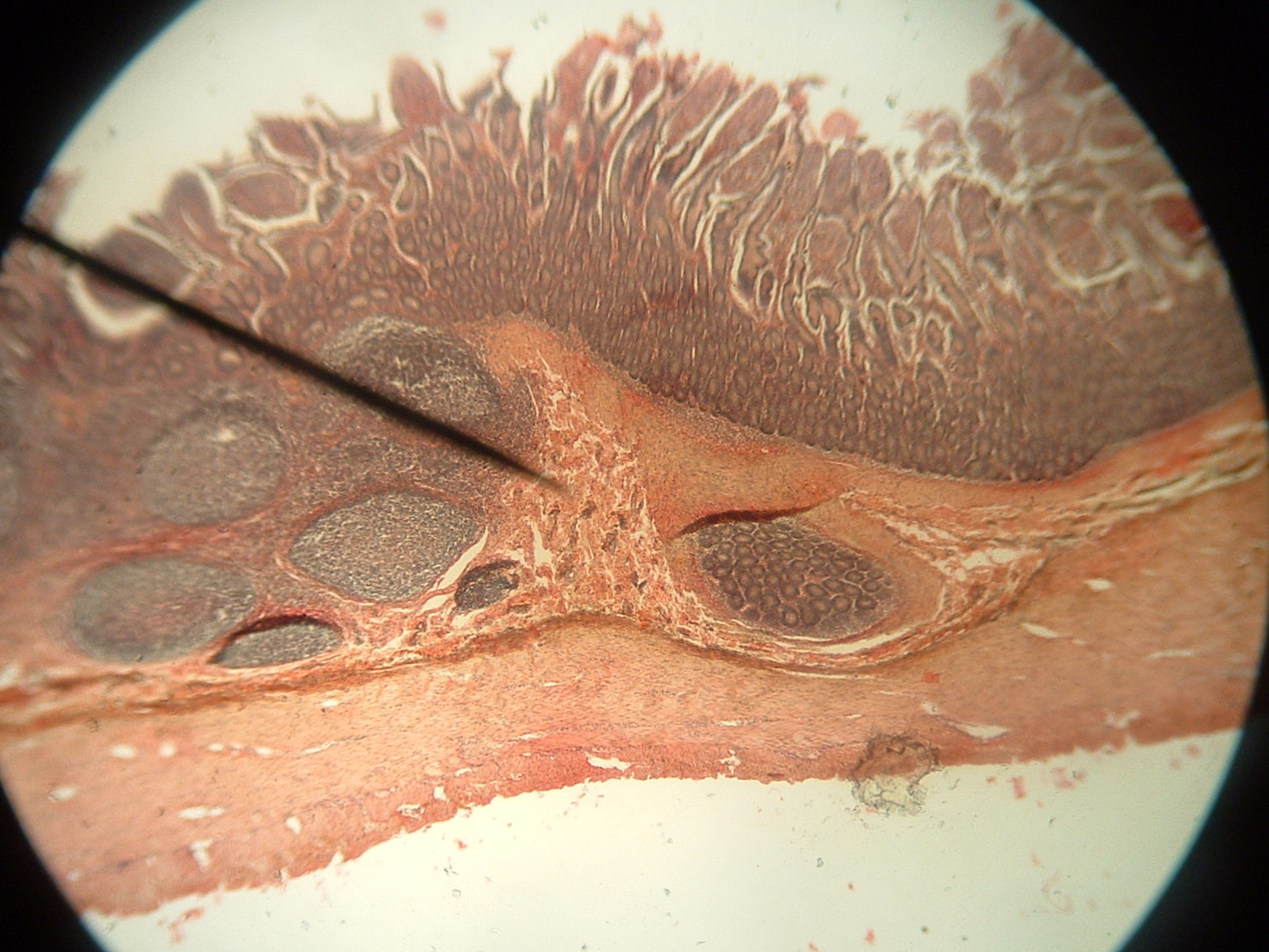 Ileum